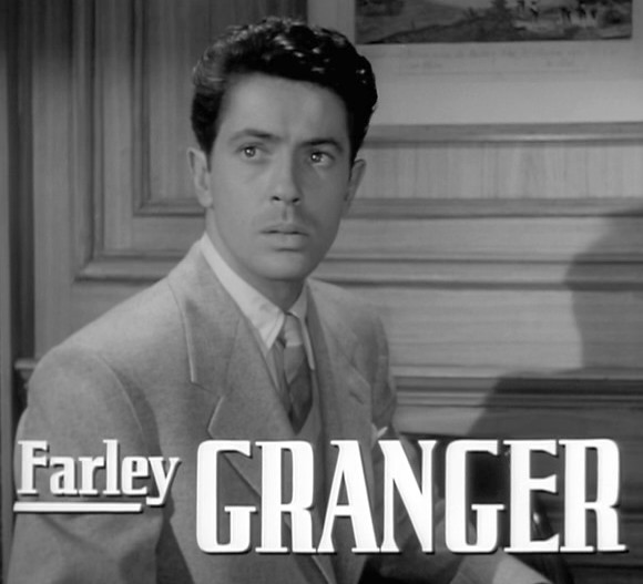 Cropped screenshot of Farley Granger from the trailer for the film Strangers on a Train.